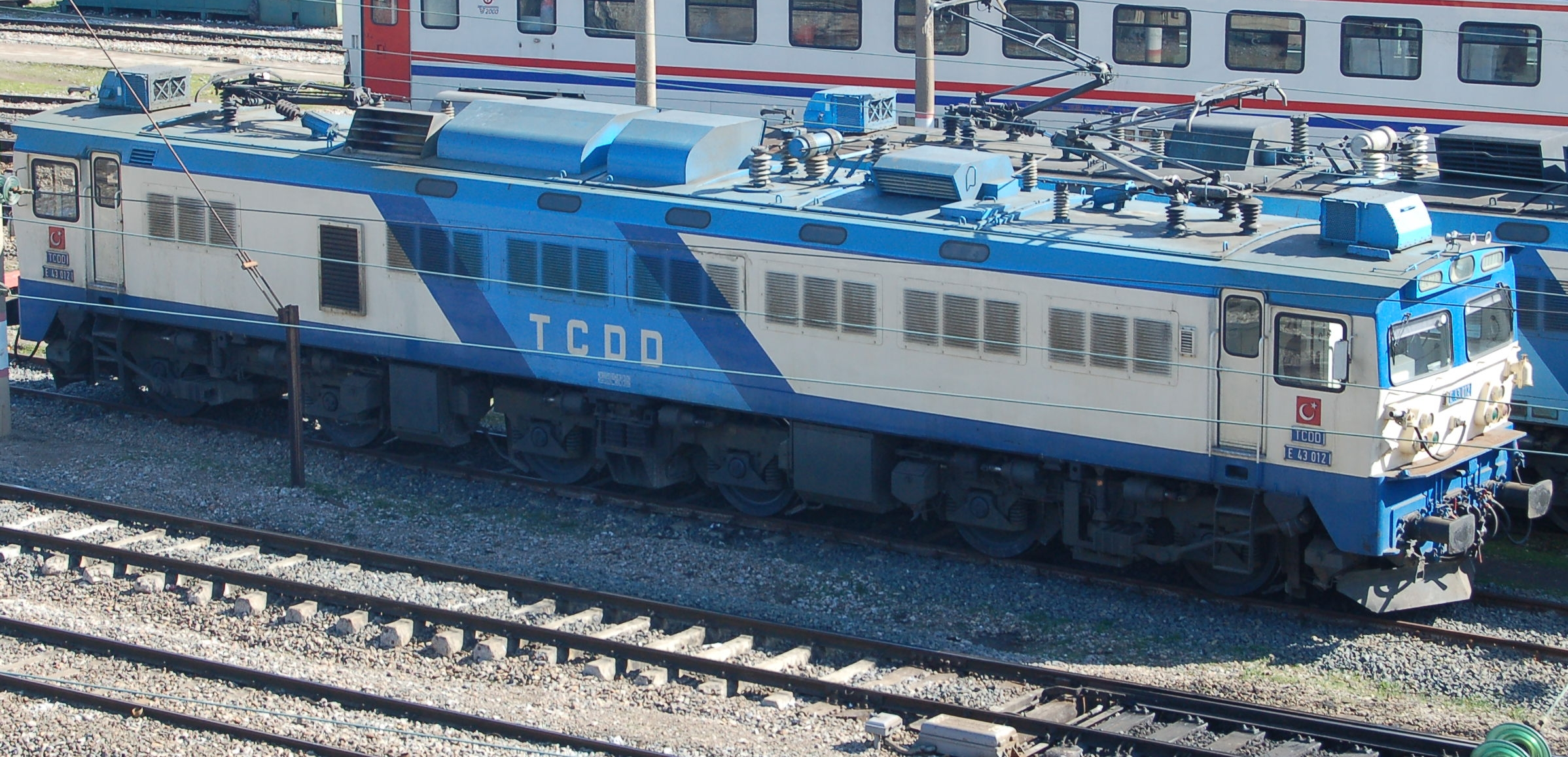 TCDD E43012 locomotive at Haydarpaşa, Istanbul, Turkey.